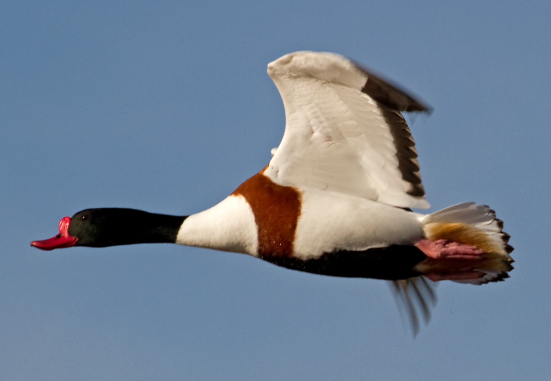 Shelduck in Flight